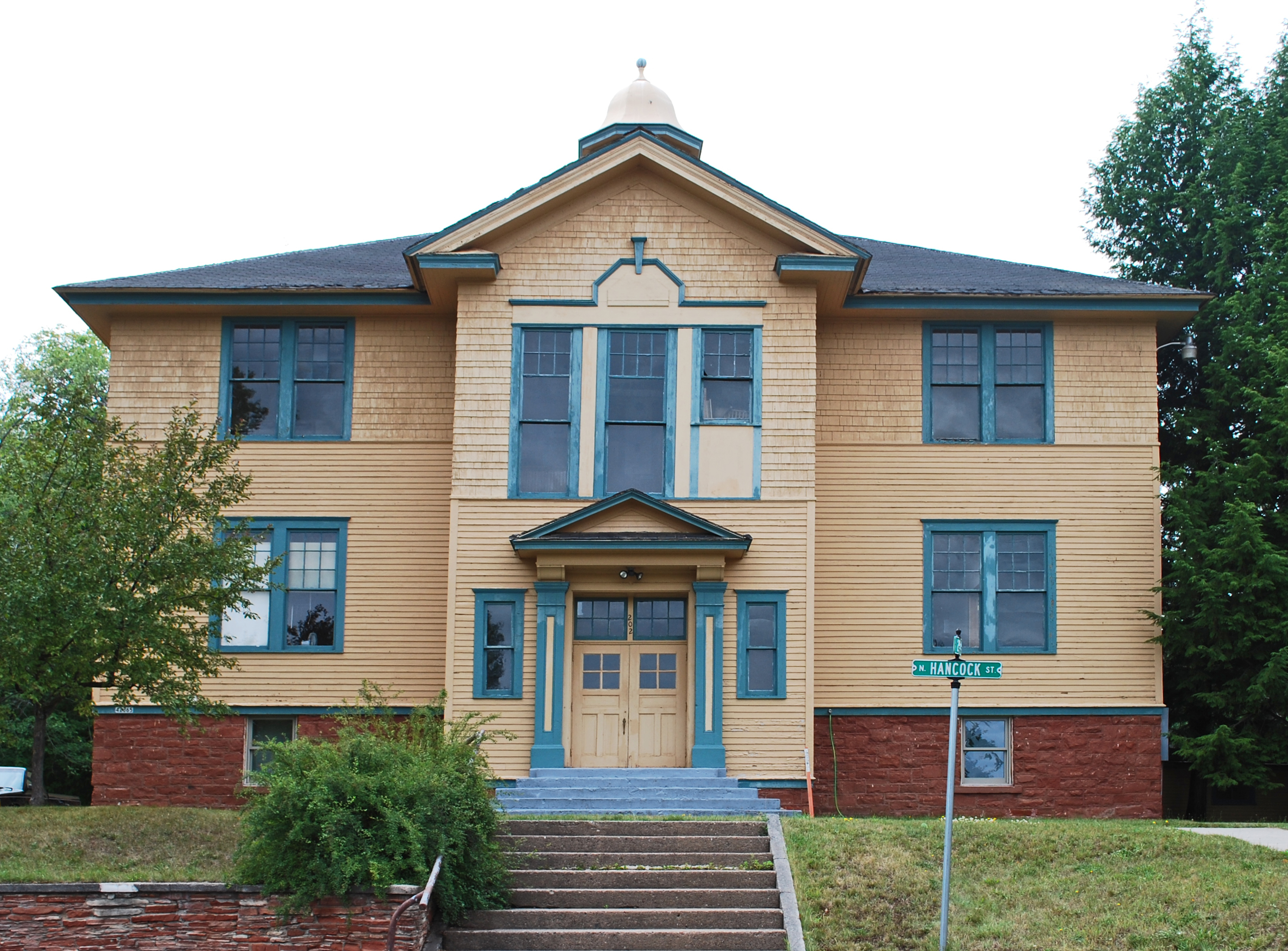 The Chassell School Complex — in Chassell, within the Keweenaw National Historical Park, upper Michigan.